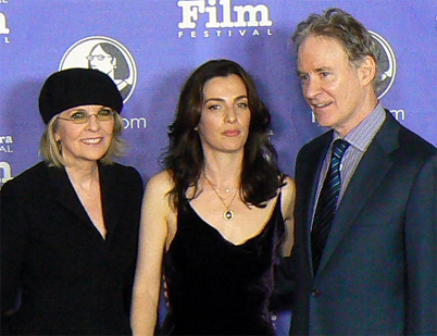 Santa Barbara International Film Festival Opening Night of Darling Companion: Diane Keaton, Ayelet Zurer and Kevin Kline